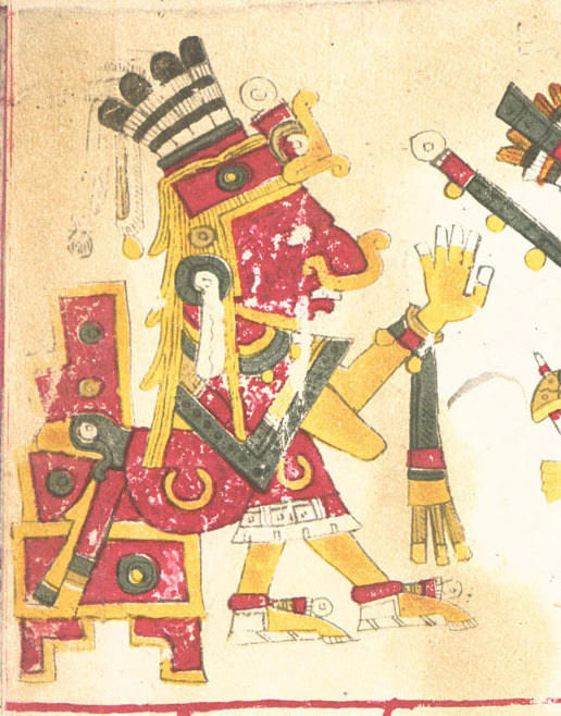 A drawing of Patecatl, one of the deities described in the Codex Borgia